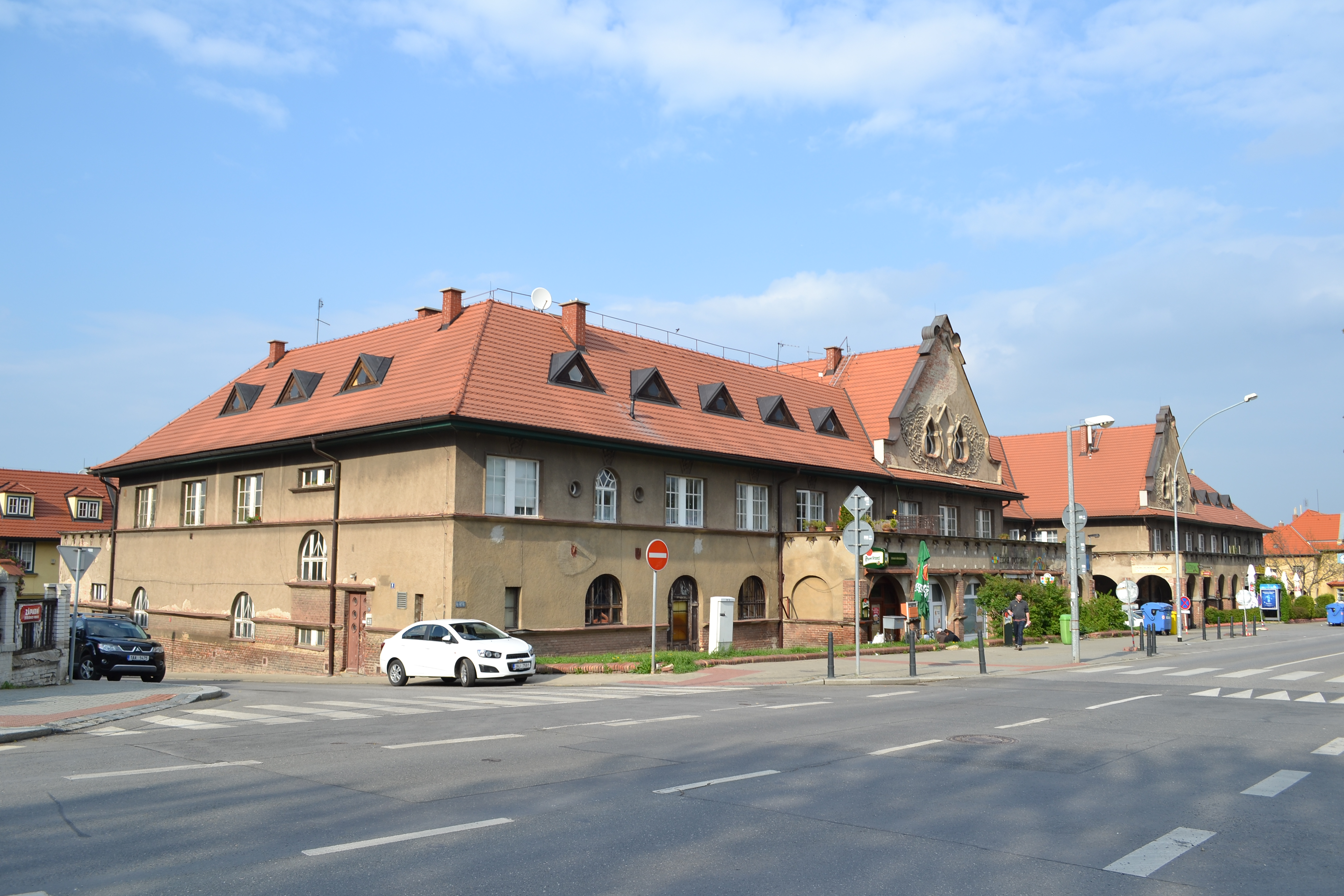 House No. 250, Střešovice, Prague 6, Czech Republic. View from Na Ořechovce street.